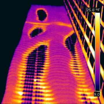 Aqua Tower, Chicago, IL. Thermal image show the loss of building heat through the floor slabs that extend through the insulated building envelope to form the balconies.